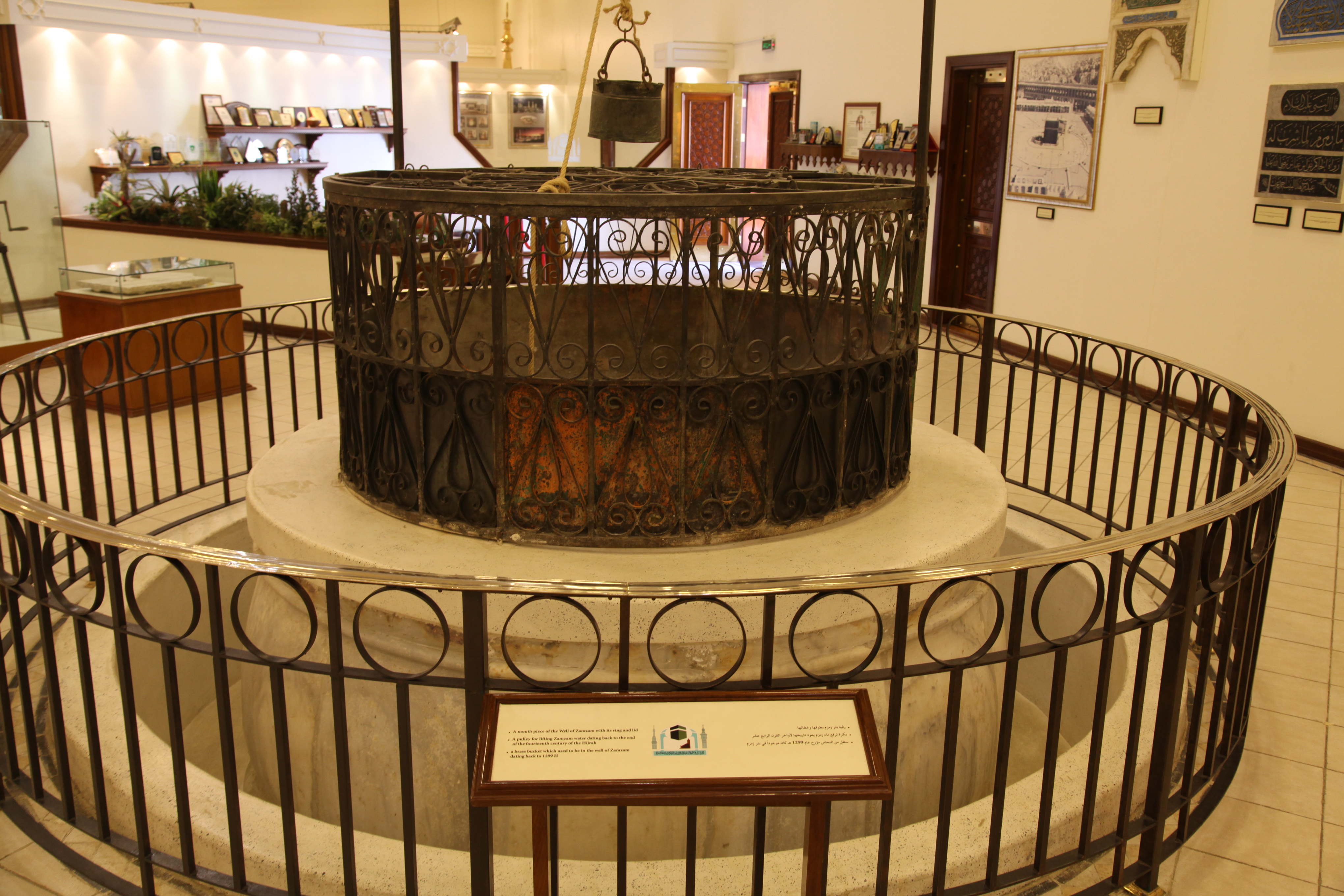 بئر زمزم الأثري (Historic Zamzam well mouthpiece), description reads: (line 1) The mouthpiece of the well of Zamzam. (line 2) The pulley for lifting Zamzam water dating back to the end of the fourteenth century of Hijrah. (line 3) The brass bucket which was used to be in the well of Zamzam dating back to 1299 Hijrah.